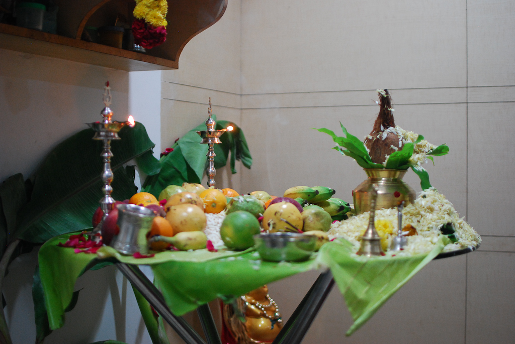 The autumn festival of Hindus includes maintaining, decorating, thanking and praying to one's tools, equipment, books, weapons and machinery with offerings. They are considered as symbolism of knowledge, wealth and warrior goddesses (Saraswati, Lakshmi, Durga).